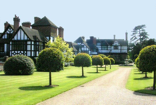 The drive at Ascott House